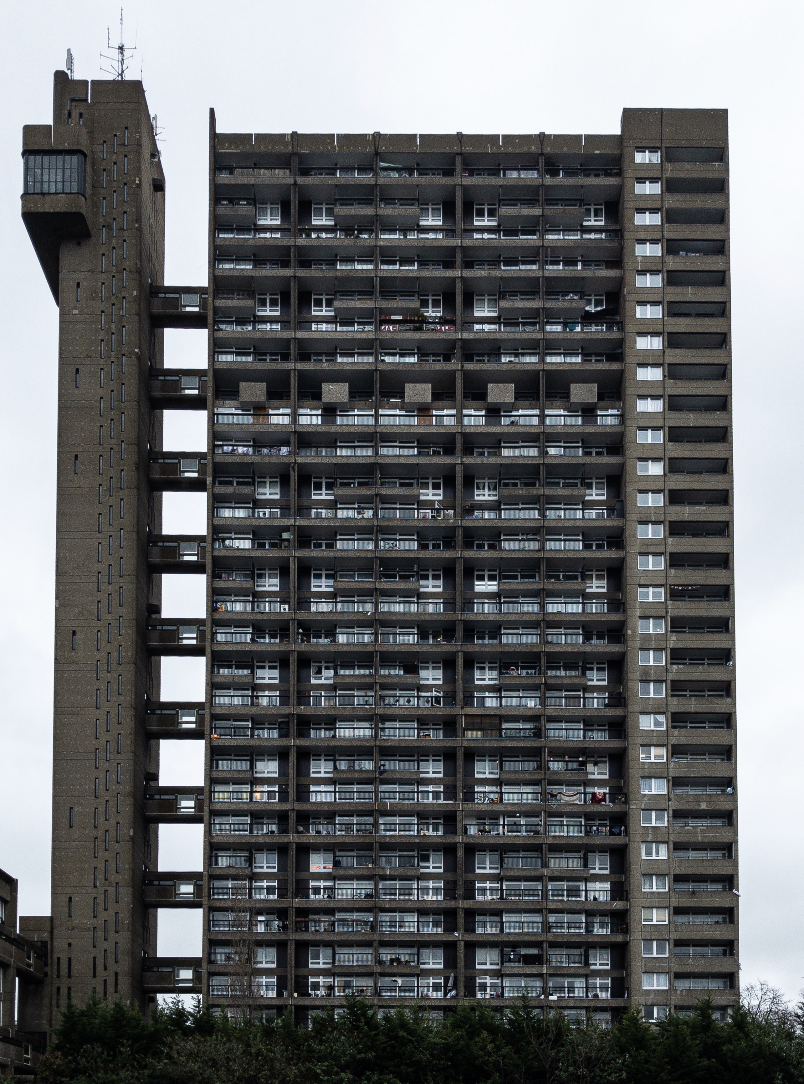 A cropped, distorted image of Trellick Tower taken from the van park below.